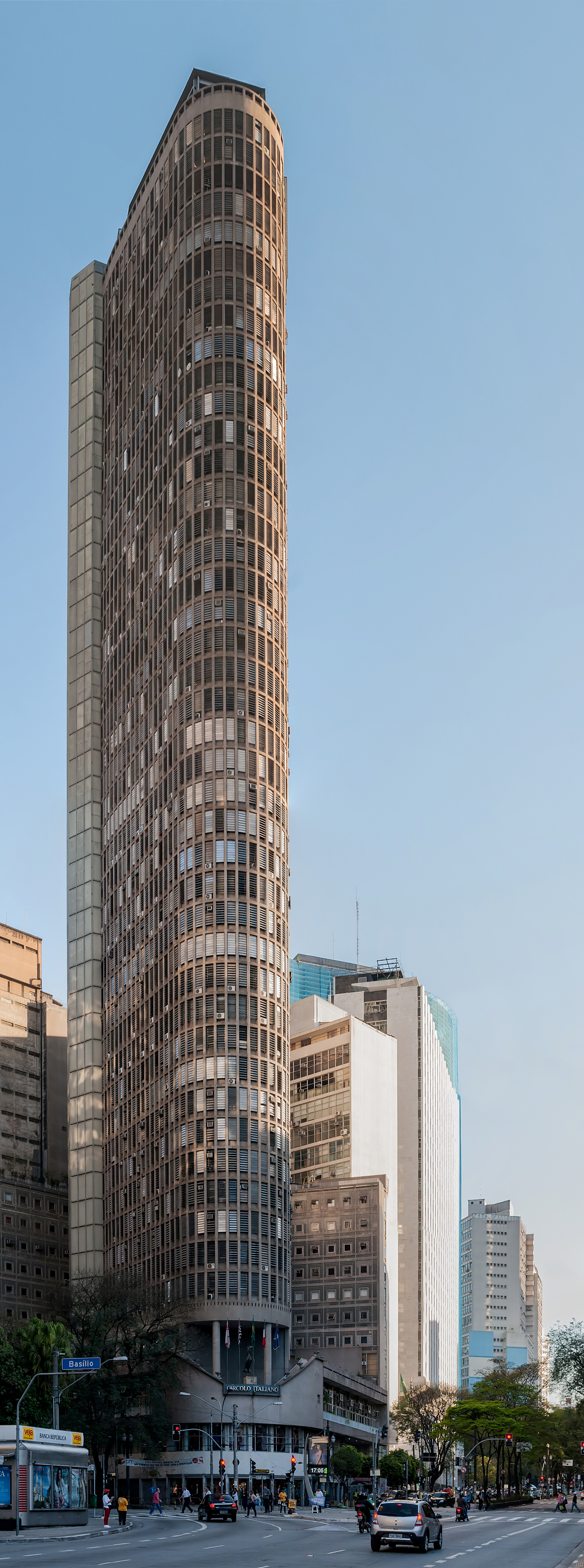 Circolo Italiano Building in São Paulo